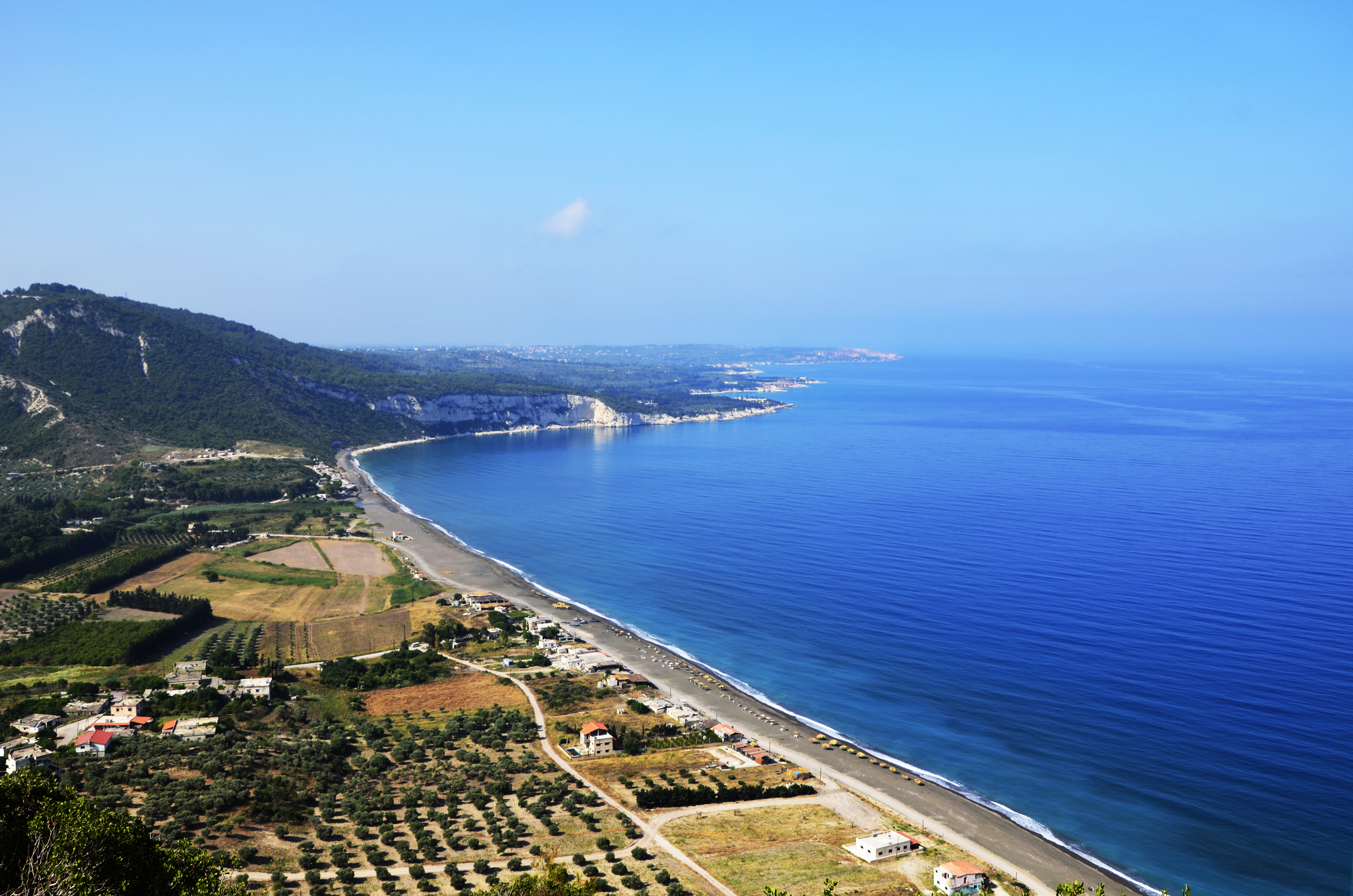 Mediterranean coast of Syria at the port city of Latakia. In the Latakia Governorate of far northwestern Syria, near the Syrian-Turkish border.